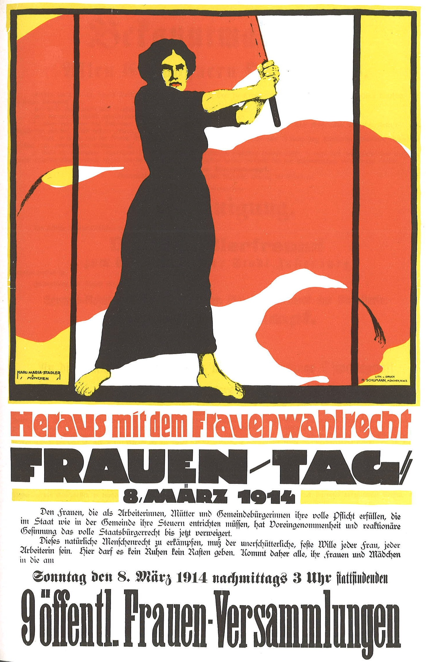 Poster for Women's Day, March 8, 1914, demanding voting rights for women.